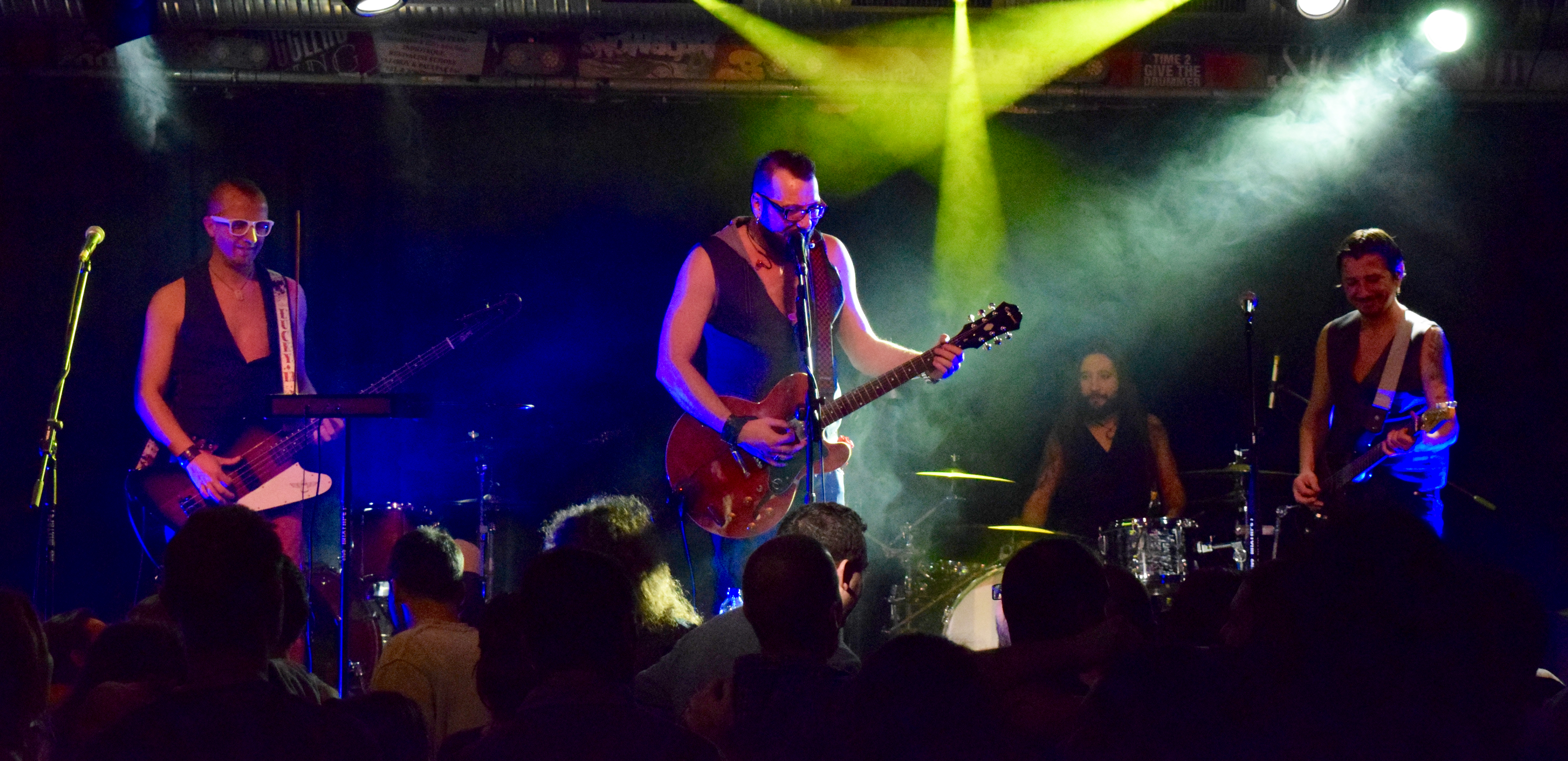 The Bulgarian band P.I.F.